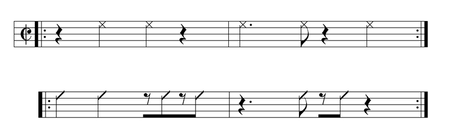 comping and break pattern known as ponchando, used in Cuban music.